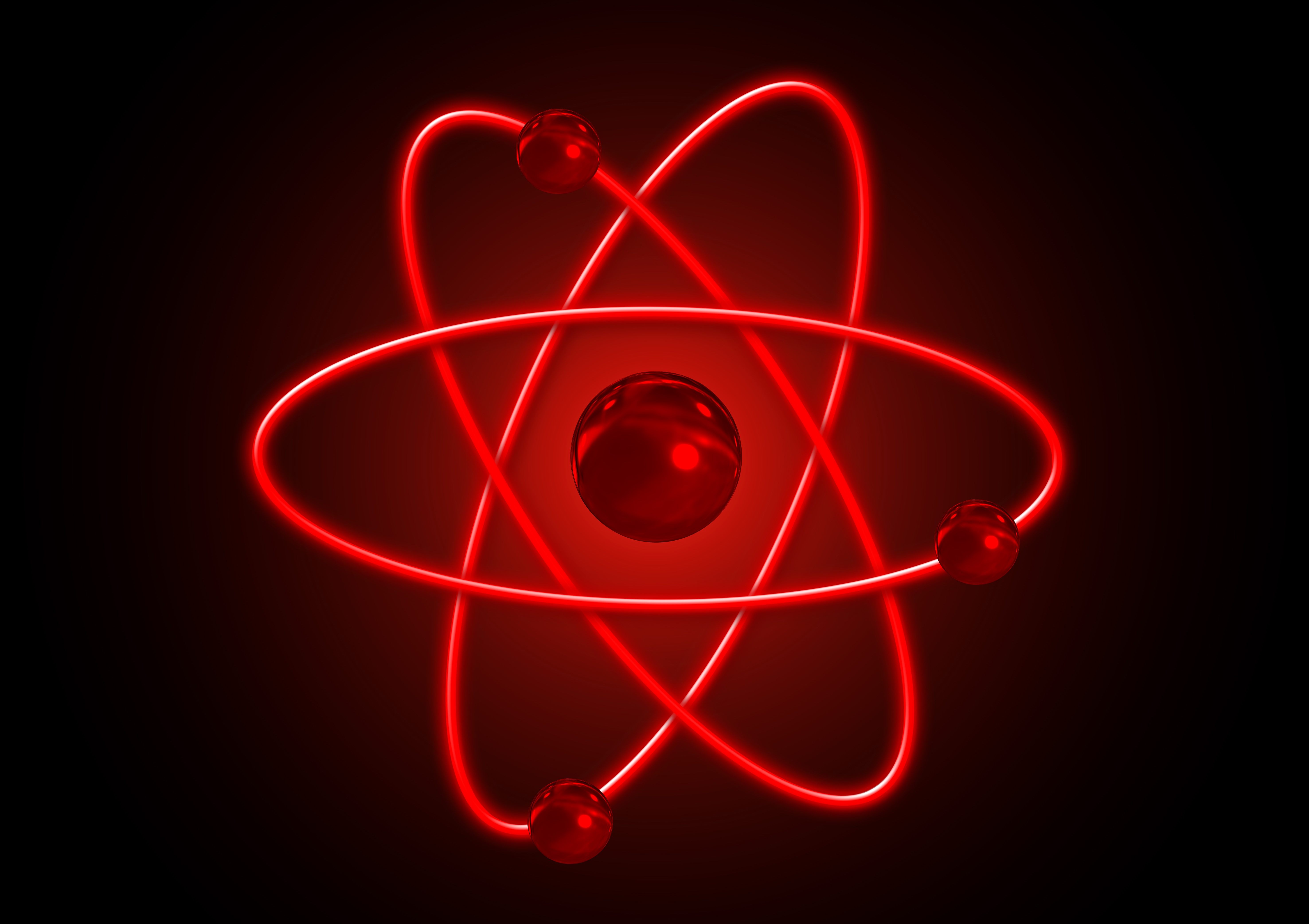 Iconic picture of an atom according to the popular perception of the Bohr model, showing “electrons” orbiting a “nucleus” both depicted as spheres